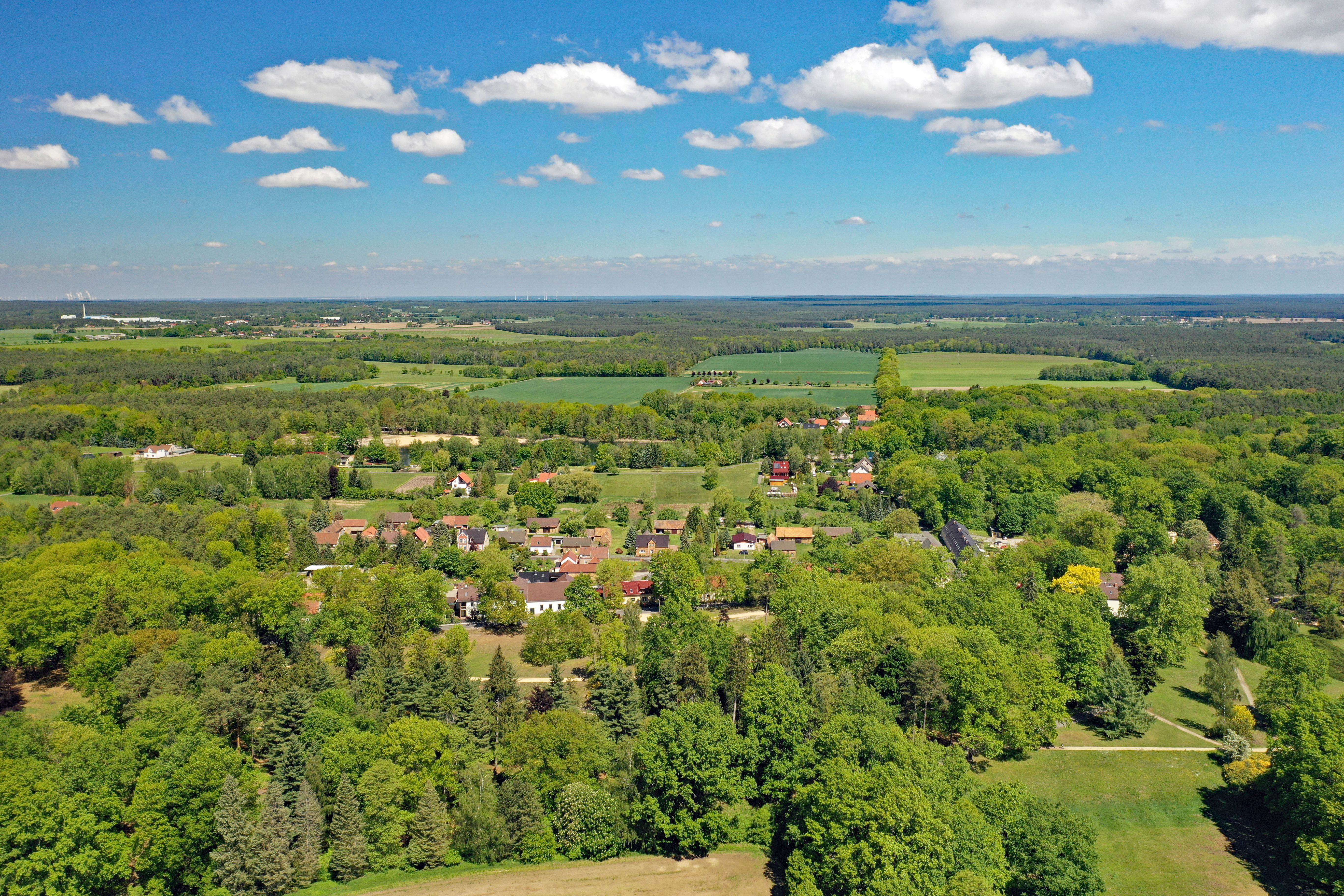 Kromlau (Gablenz, Saxony, Germany) Hornjoserbsce: Powětrowy wobraz Kromole